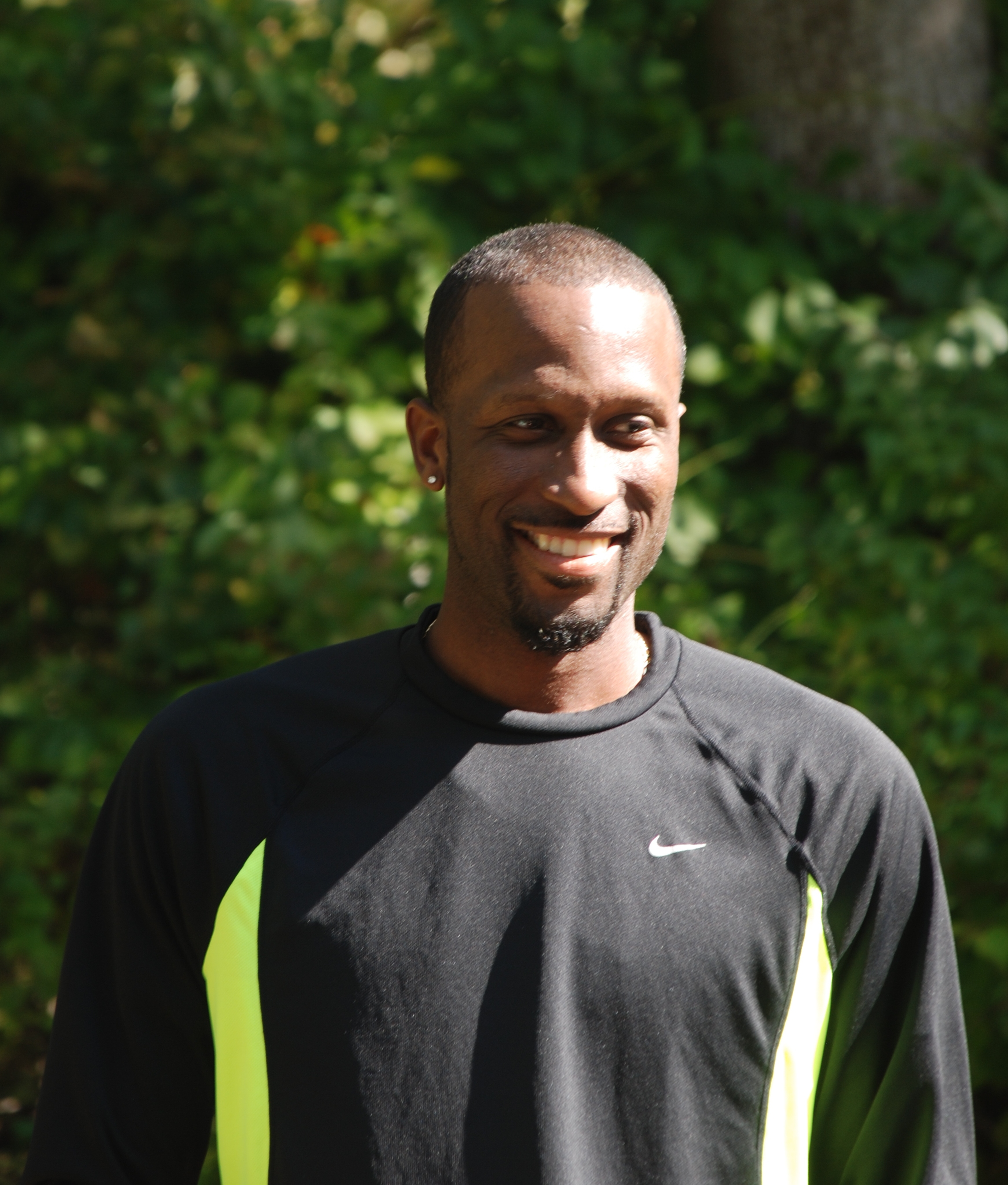 Fun Run fundraiser run benefitting construction of "Chessie's big backyard" playground in Fairfax, Virginia: Moise Joseph